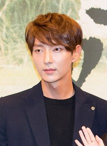 Lee Jun-ki at "Moon Lovers - Scarlet Heart Ryeo" press conference, 24 August 2016